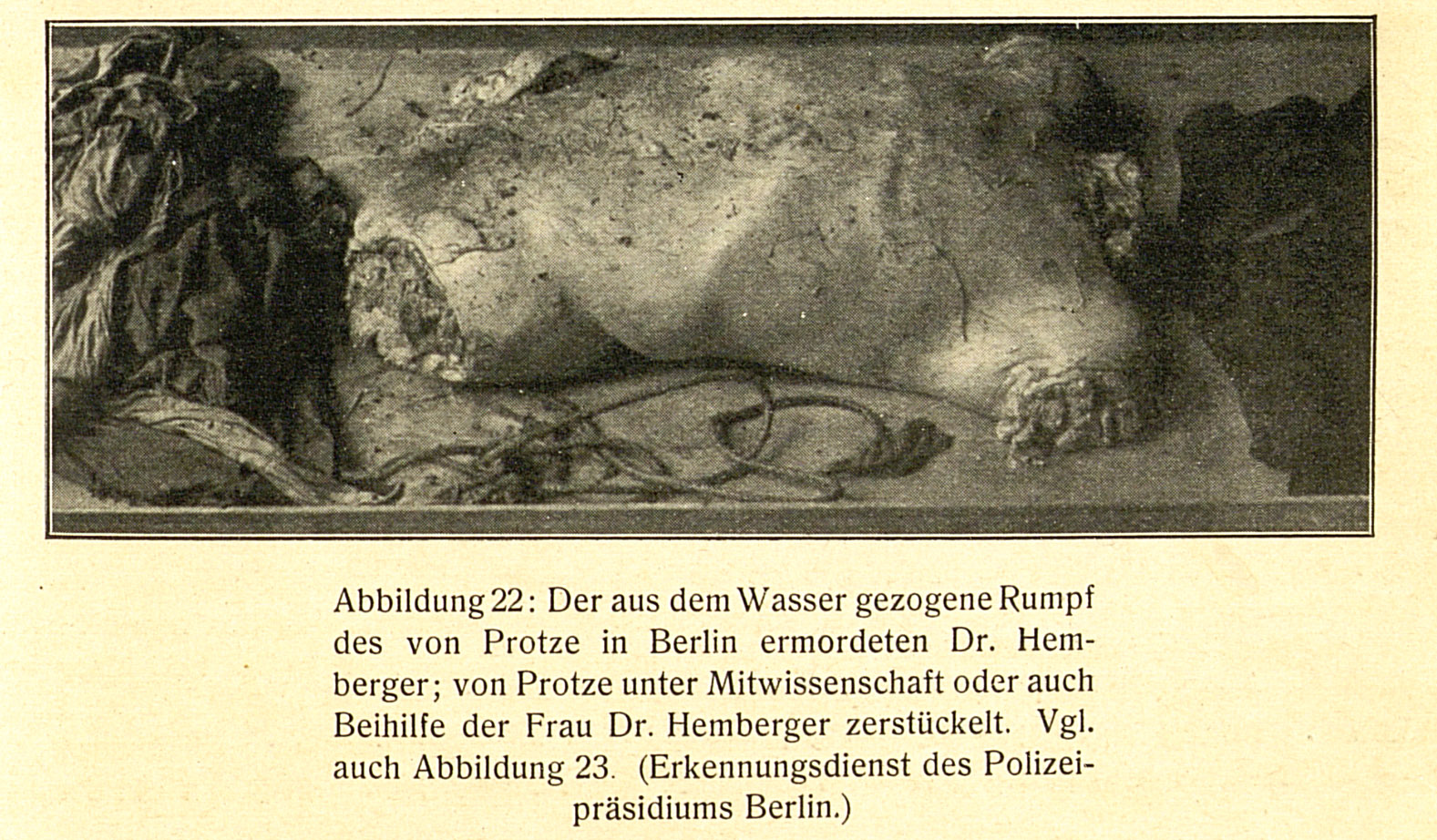 Torso of the murdered teacher Anselm Hemberger.